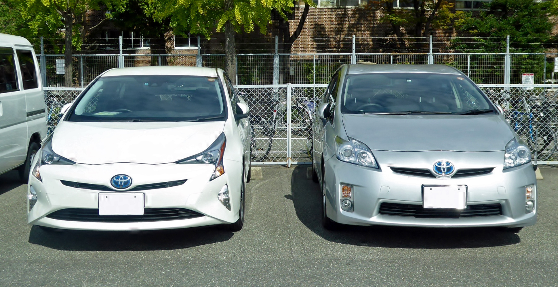 Two generations of Toyota Prius, fourth (left) and third (right)